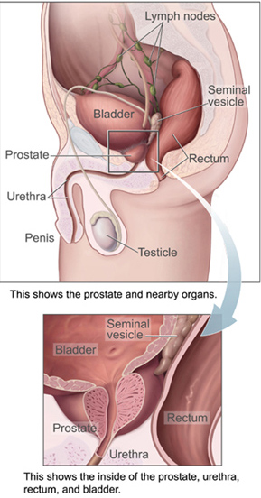 Prostate and bladder, sagittal section.